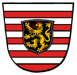 Former coat of arms of Hammelbach (Grasellenbach)